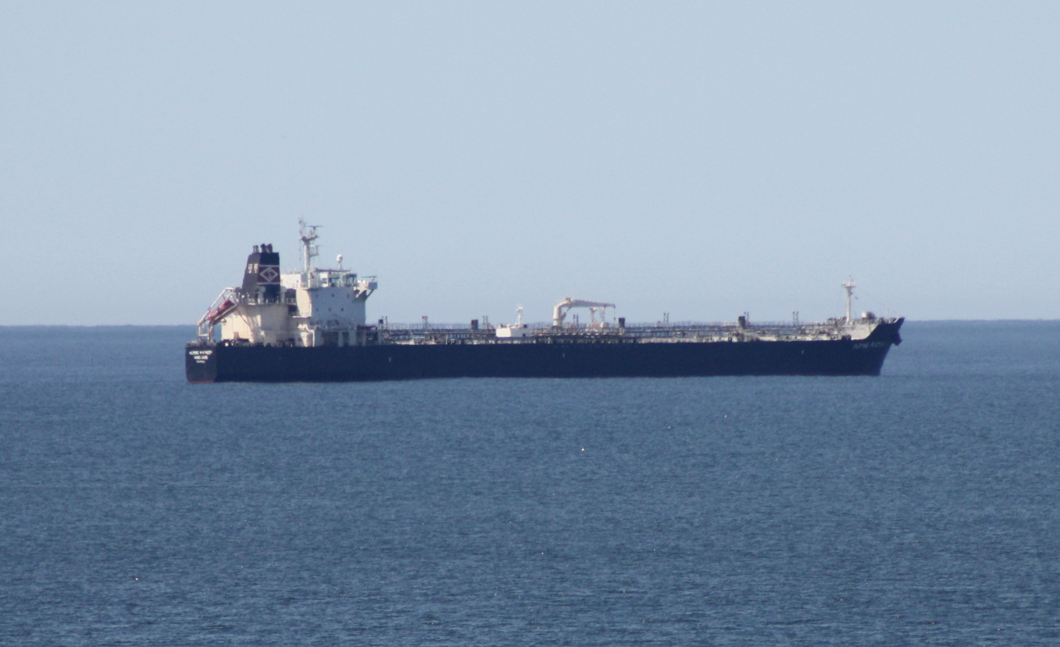 Tanker "Alpine Mystery" IMO 9392808